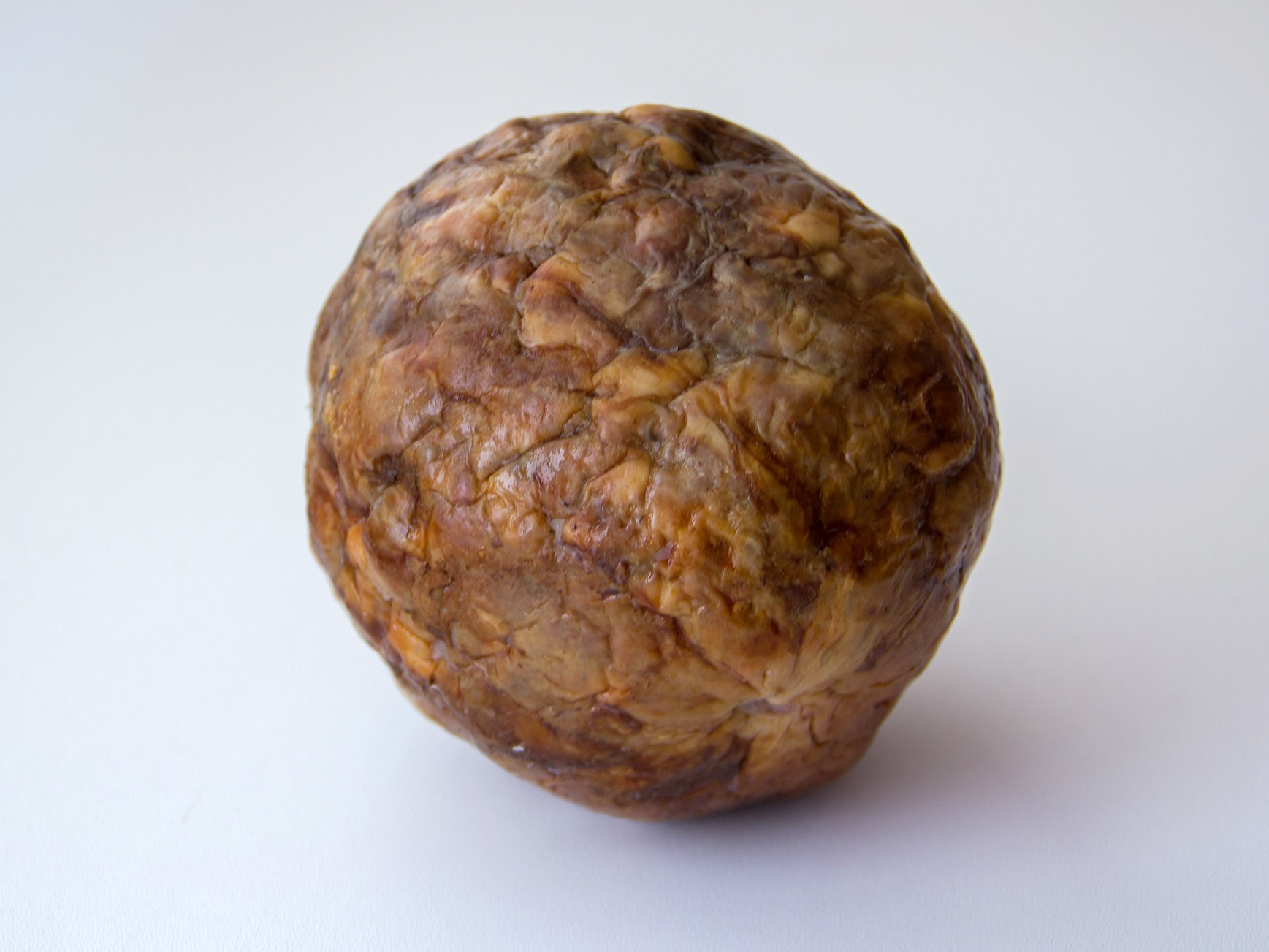 Shirtan (Shartan) - Chuvash national meat products.